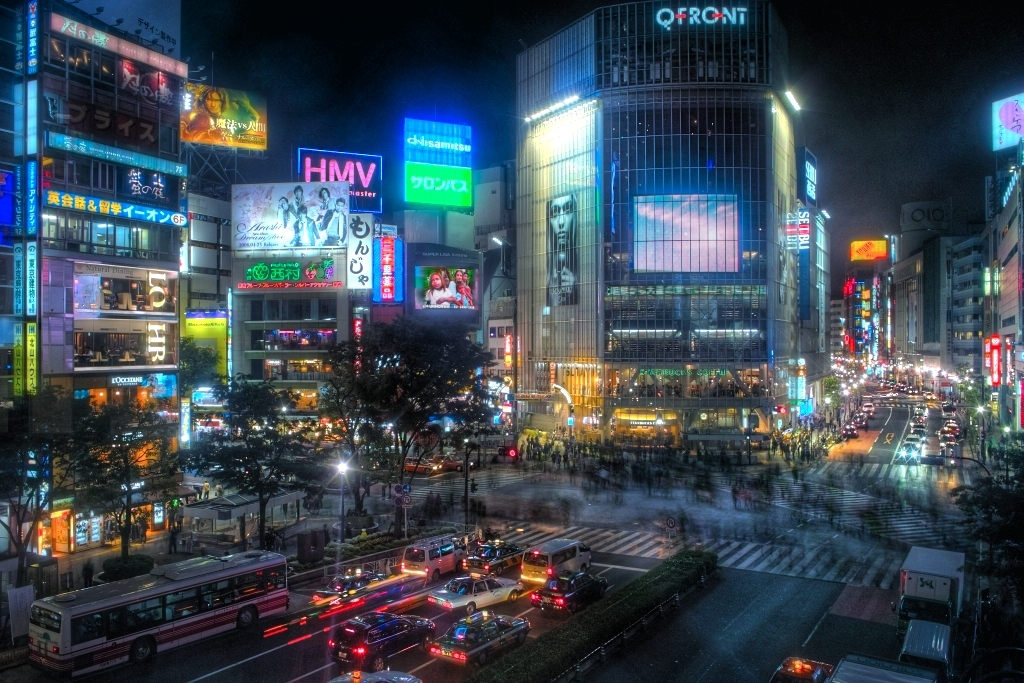 Shibuya, Tokyo, Japan 2008/05/14 This photo was used in UK magazine The World Today, Volume 65, Number 3, March 2009 :D